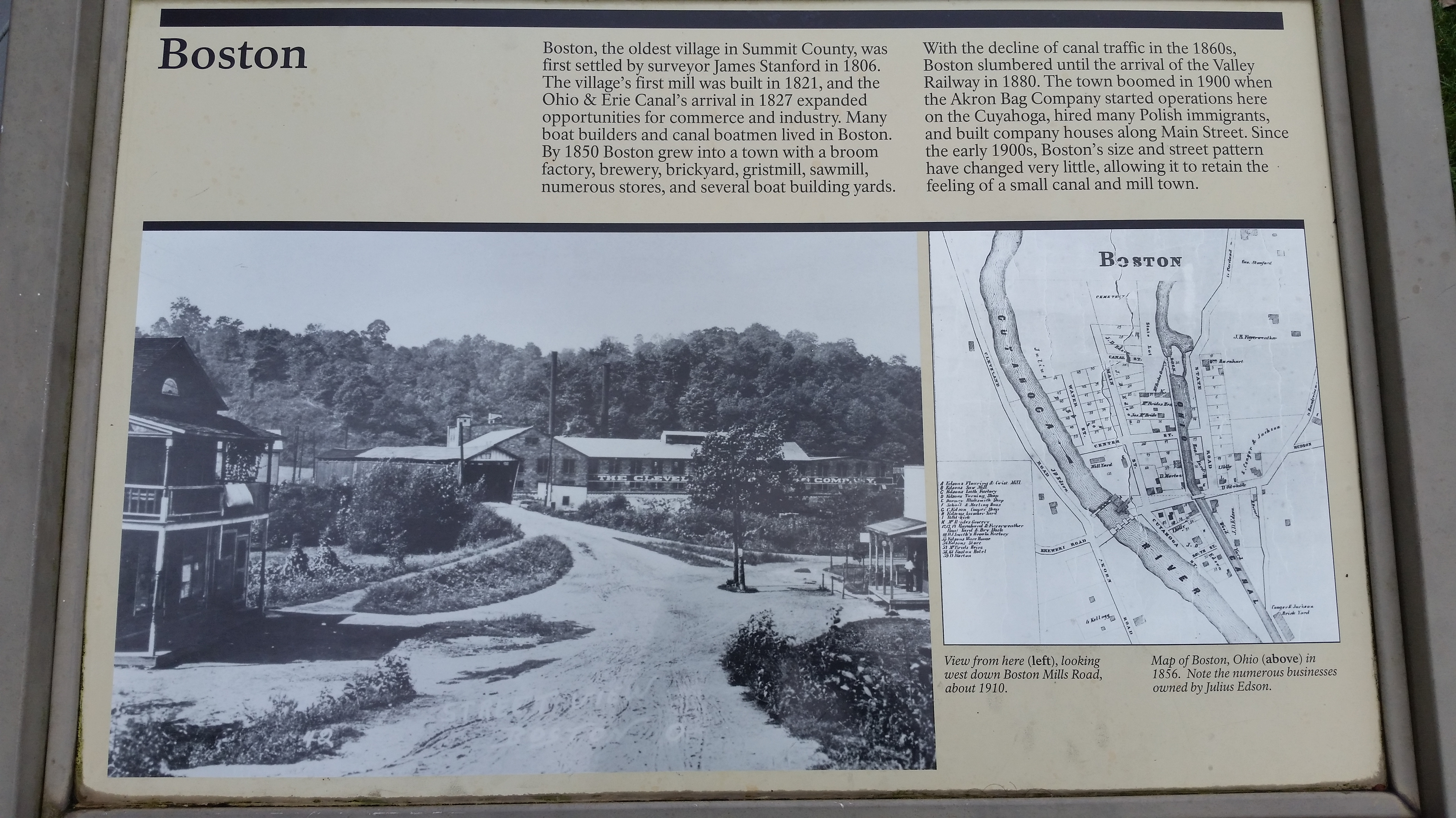 Cuyahoga Vallery National Park marker for Boston, Summit County, Ohio